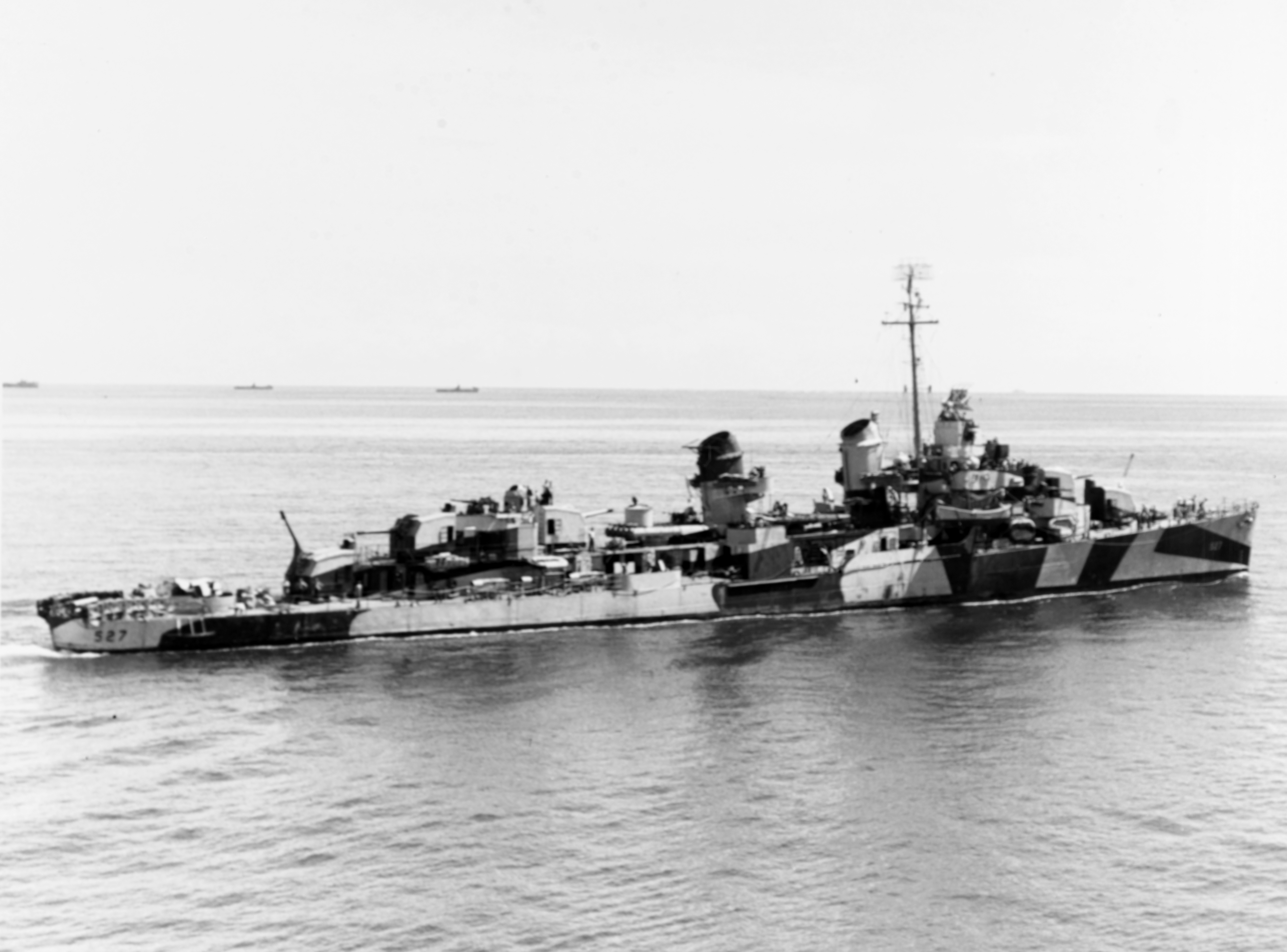 The U.S. Navy destroyer USS Ammen (DD-527) underway off Leyte, Philippines, 20-24 October 1944, with what appears to be a column of medium landing ships (LSMs) in the background.